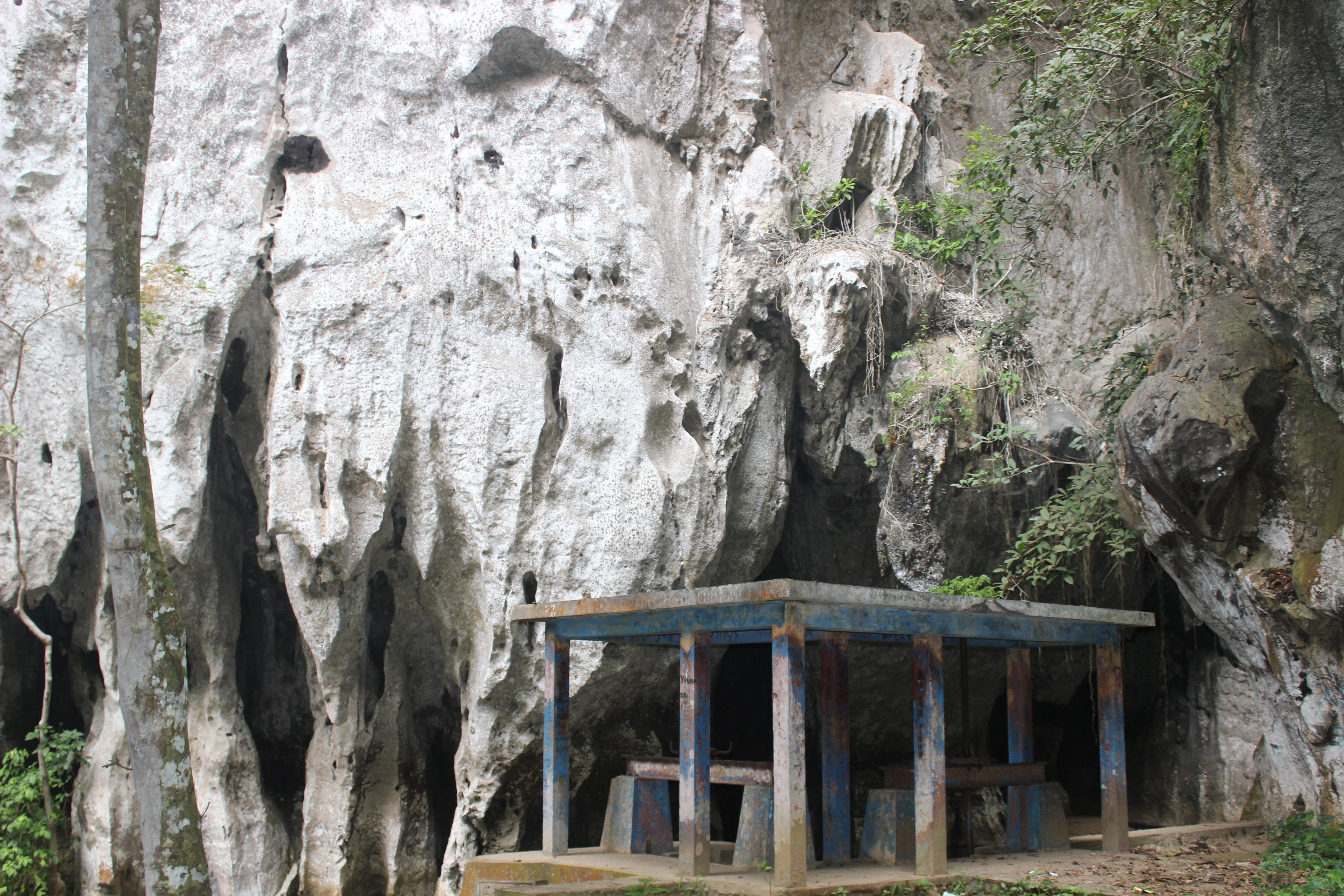 The cave (ngalau) in Pangian, Lintau Buo, Tanah Datar. There is also a water gate.